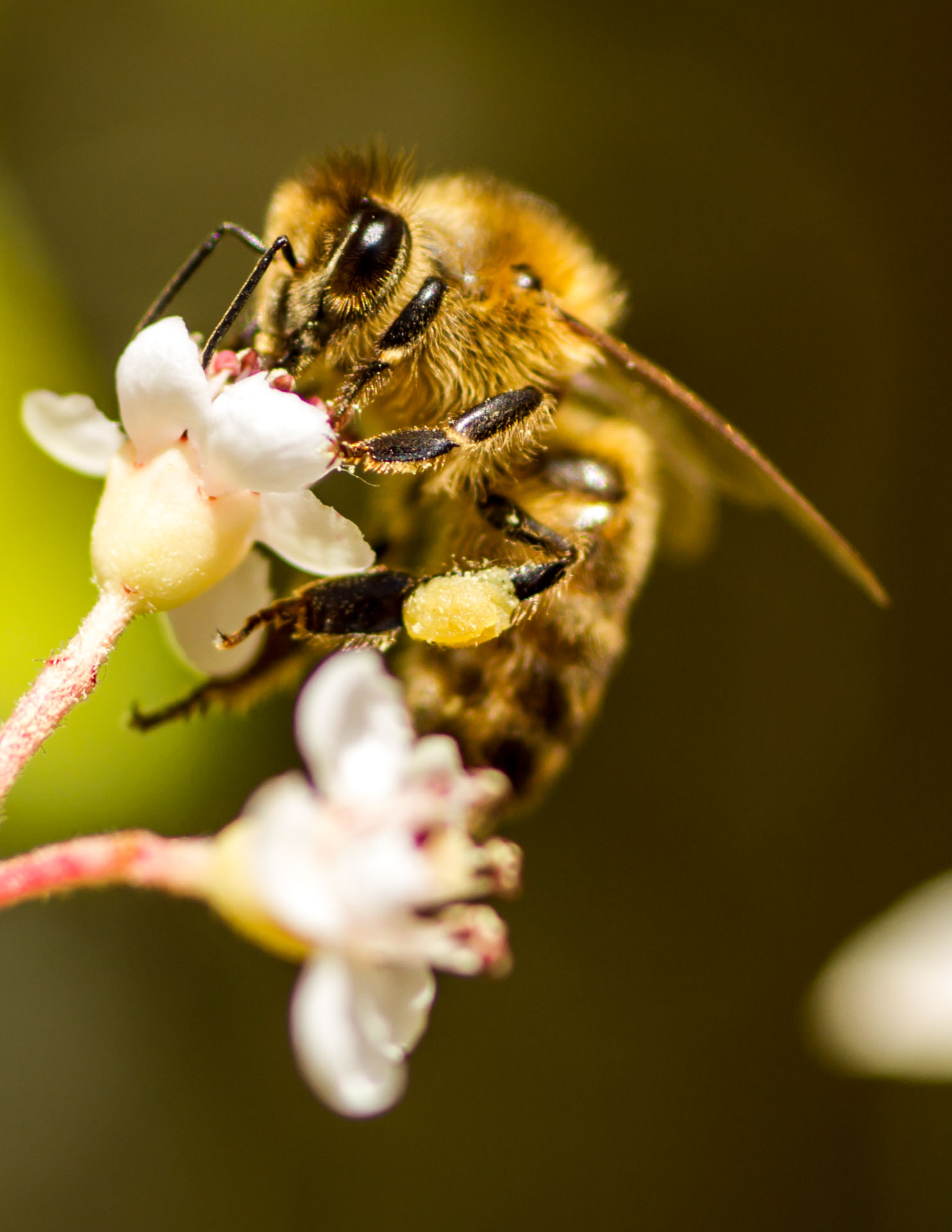 Honey bee on flower with pollen collected on rear leg